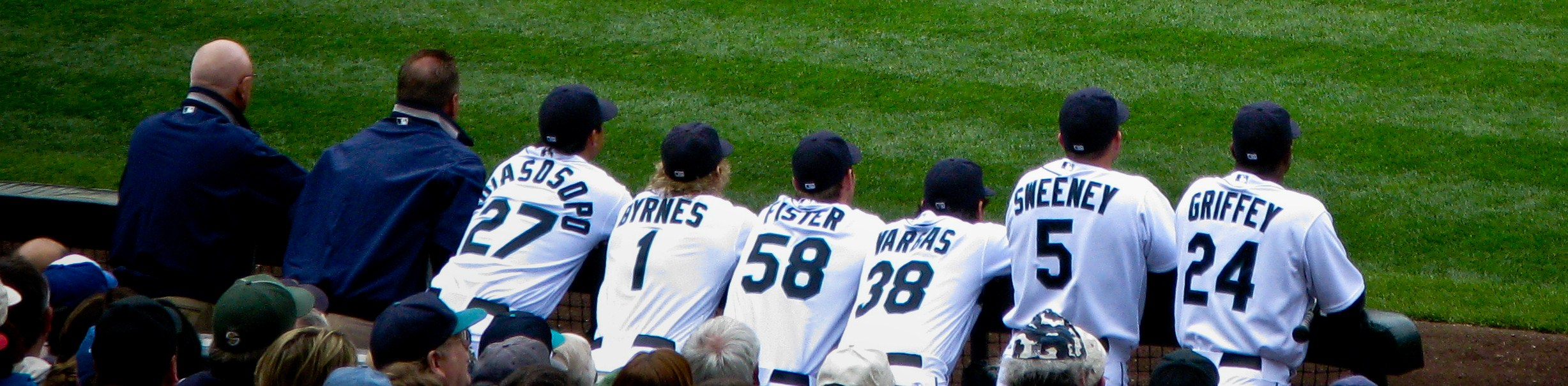 Members of the 2010 Seattle Mariners.